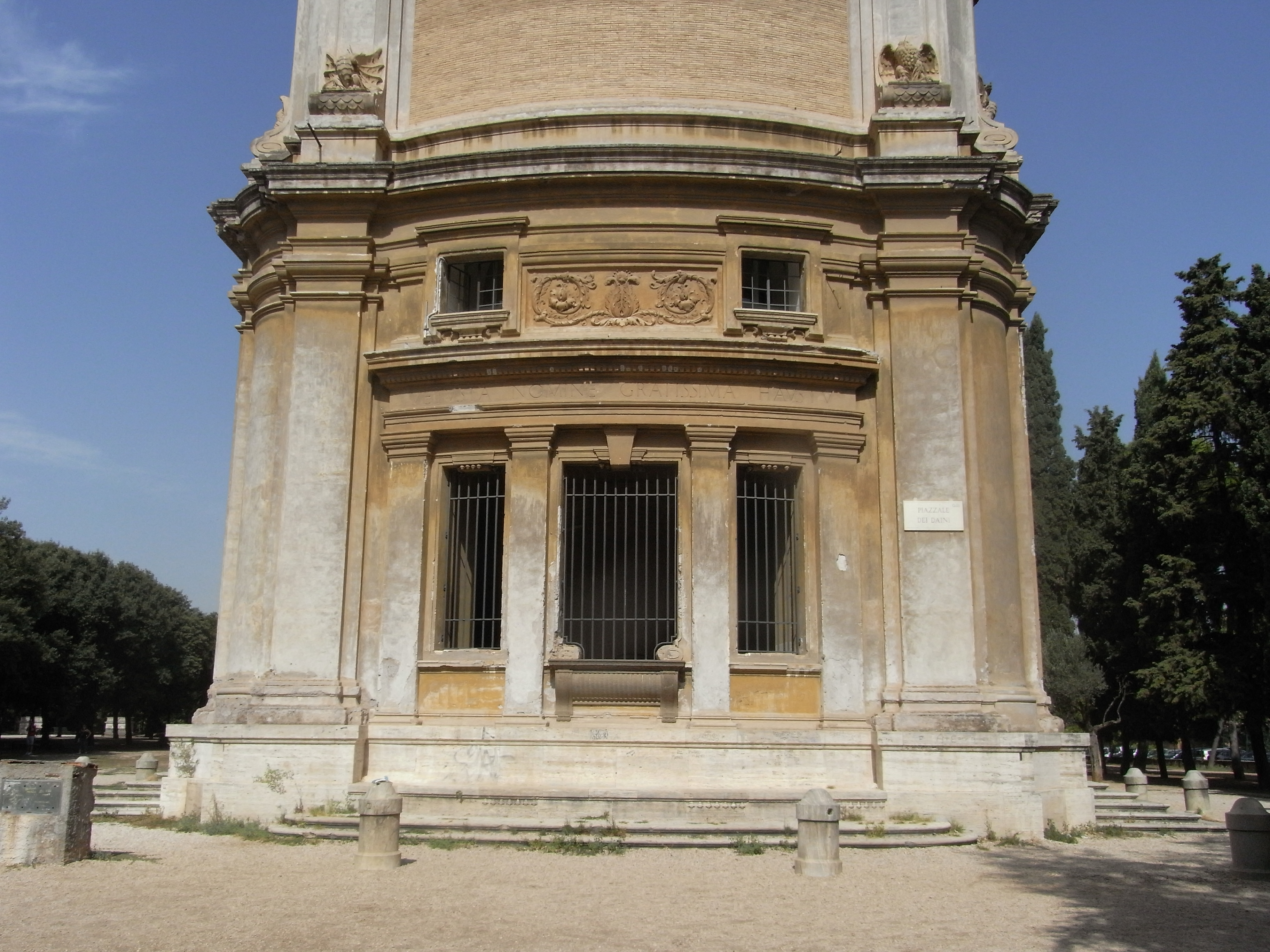 Villa Borghese entrance tower